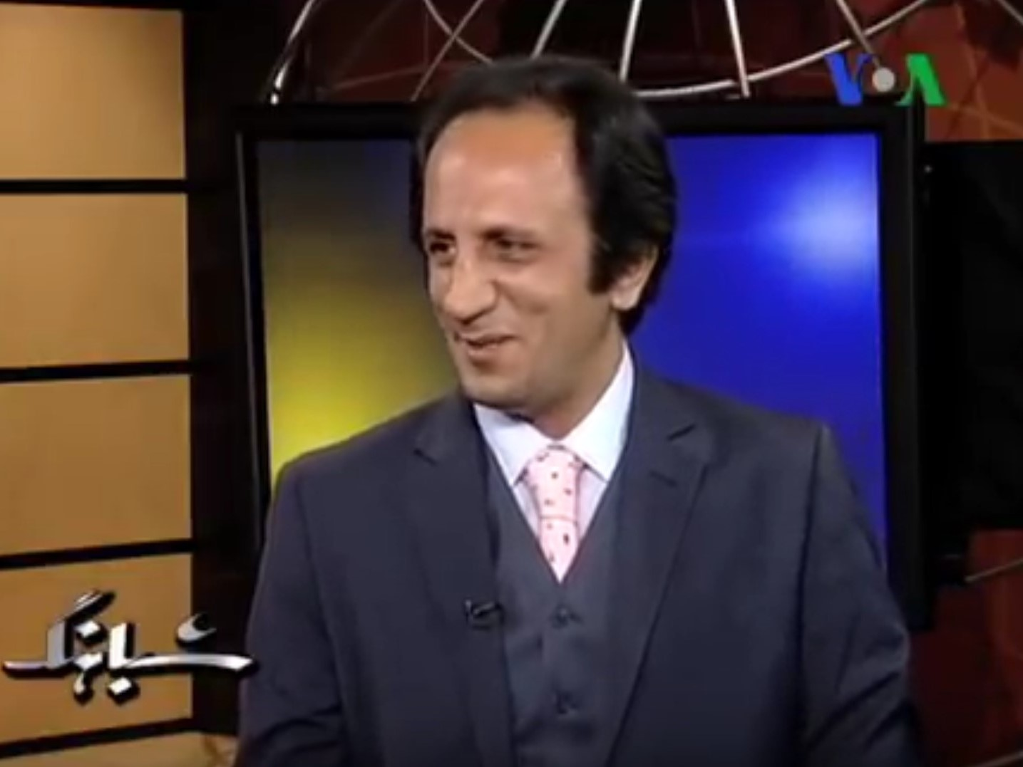 Screenshot from a Voice of America interview